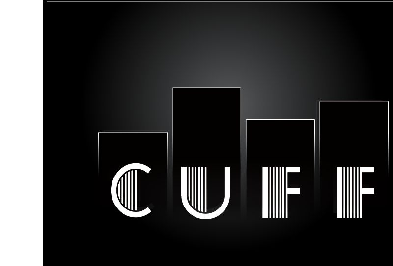 CUFF logo